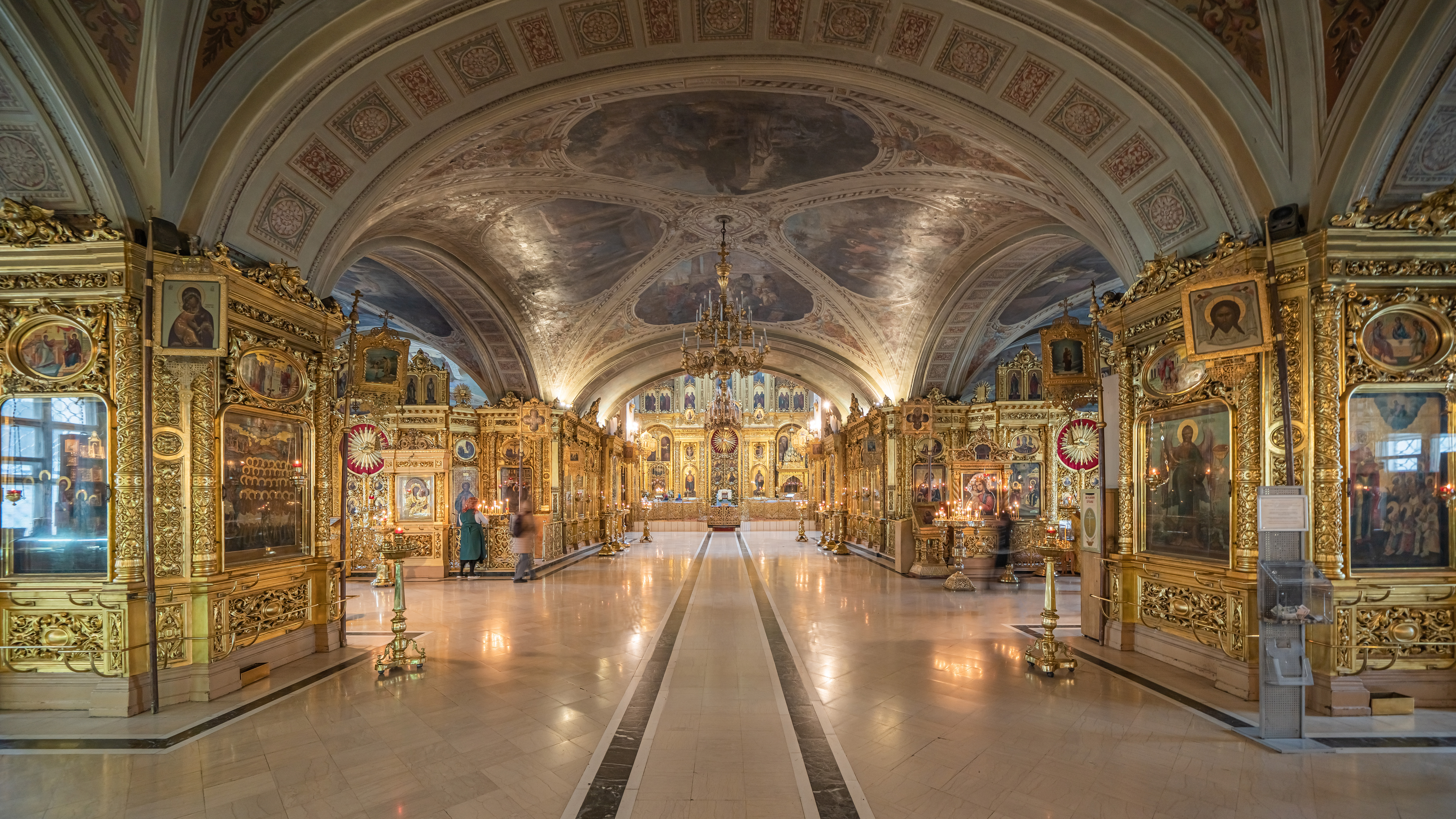 Epiphany Church at Elokhovo in Moscow, Russia